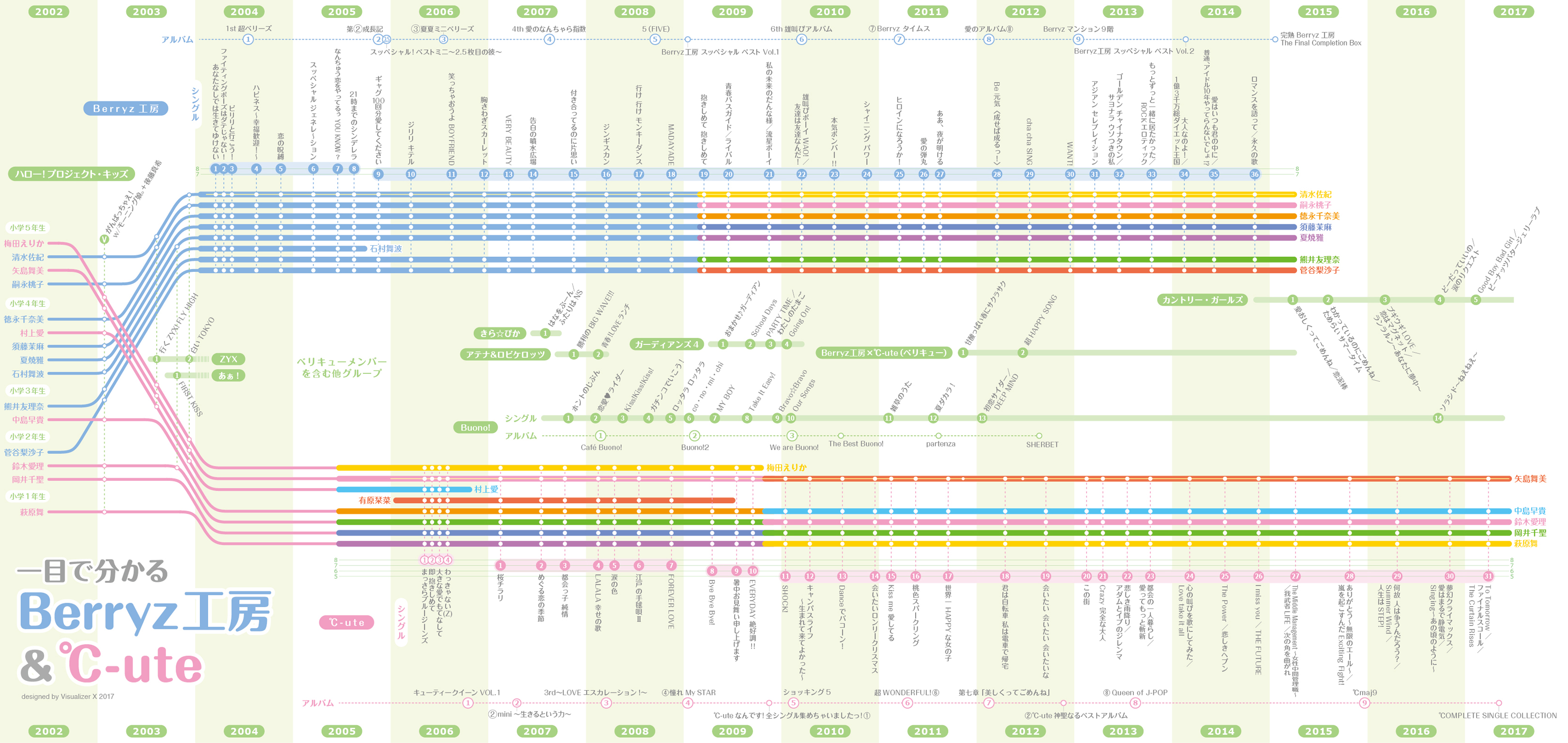 This is my own work and anyone who loves Hello! Project Kids may use this file under the conditions of the Creative Commons.